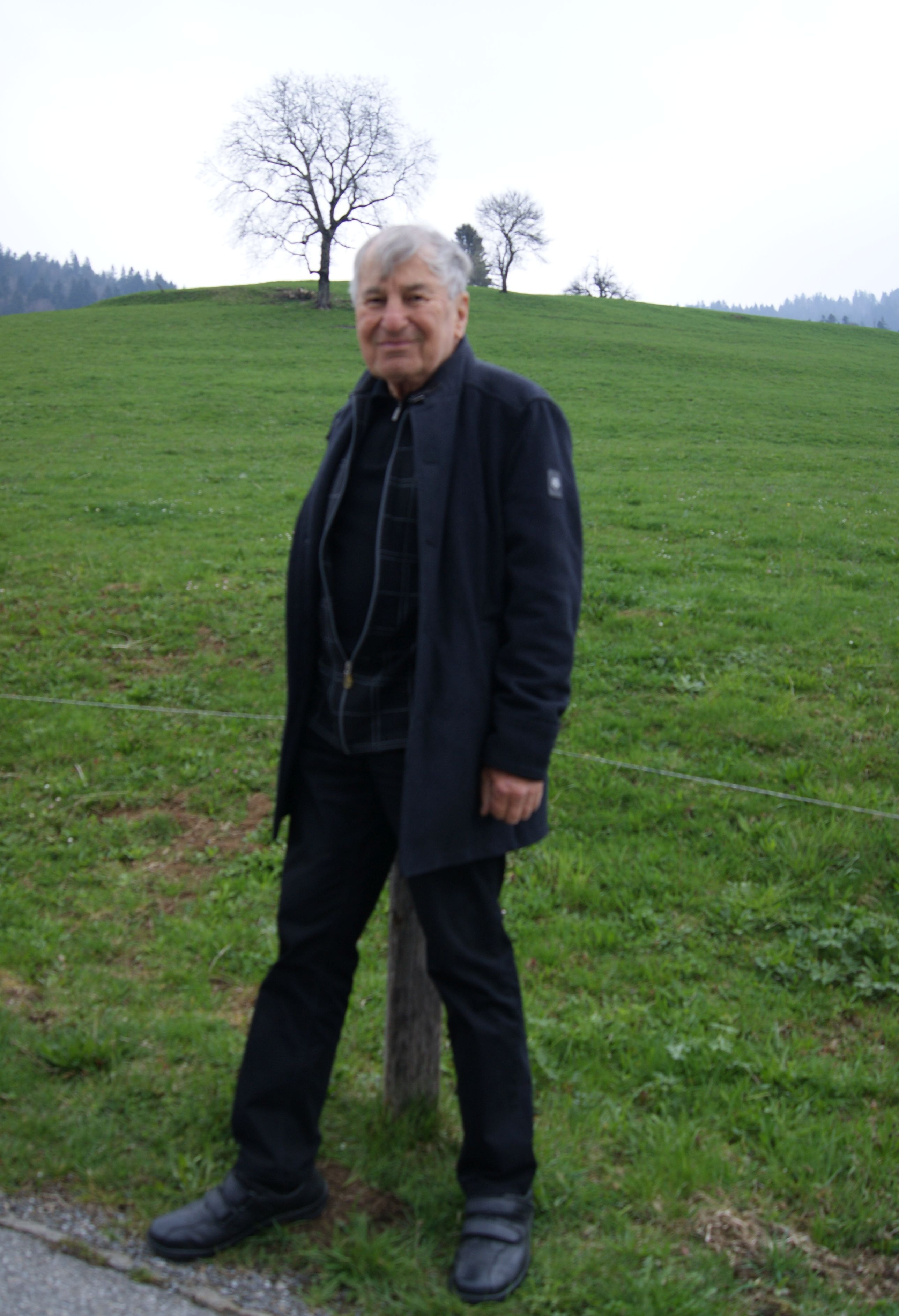 Artist (painting) Prof. Gerhard Winkler, photograph taken in Schwarzenberg, Vorarlberg, Austria.